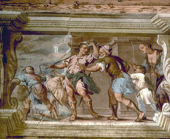 Villa Valmarana in Vigardolo of Monticello Conte Otto, province of Vicenza.